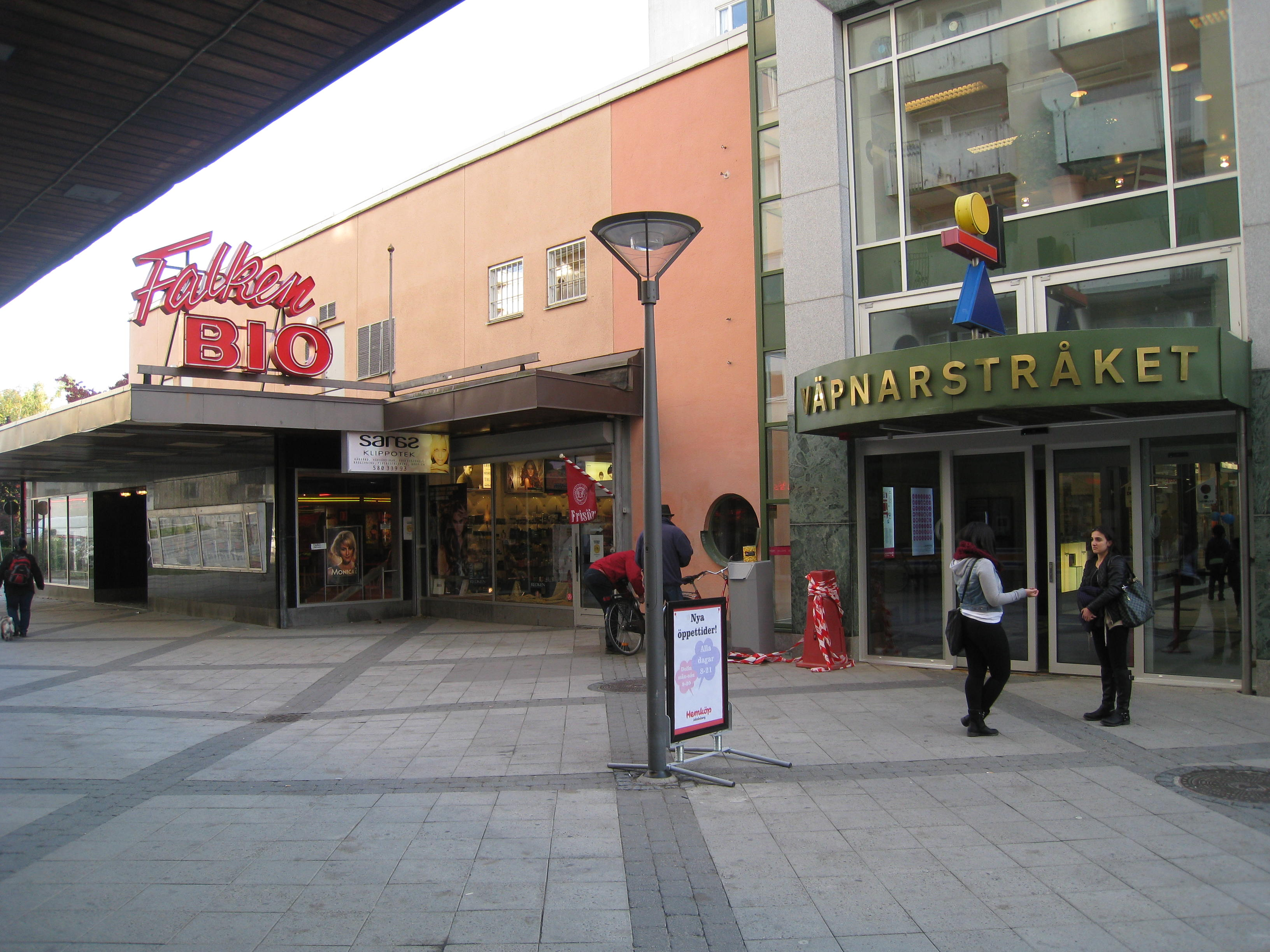 The centre of Jakobsberg, Järfälla, Stockholm County. The entry to Jakobergsgallerian at Väpnarstråket and the cinema Falken.